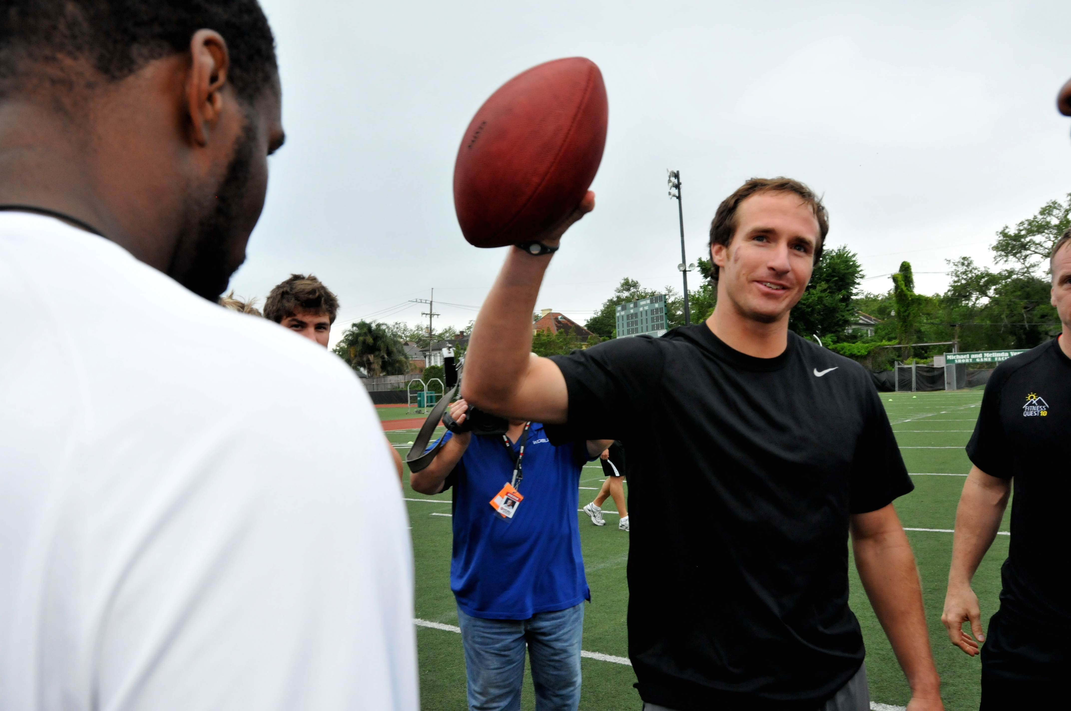 Saints practice at Tulane; May 3, 2011